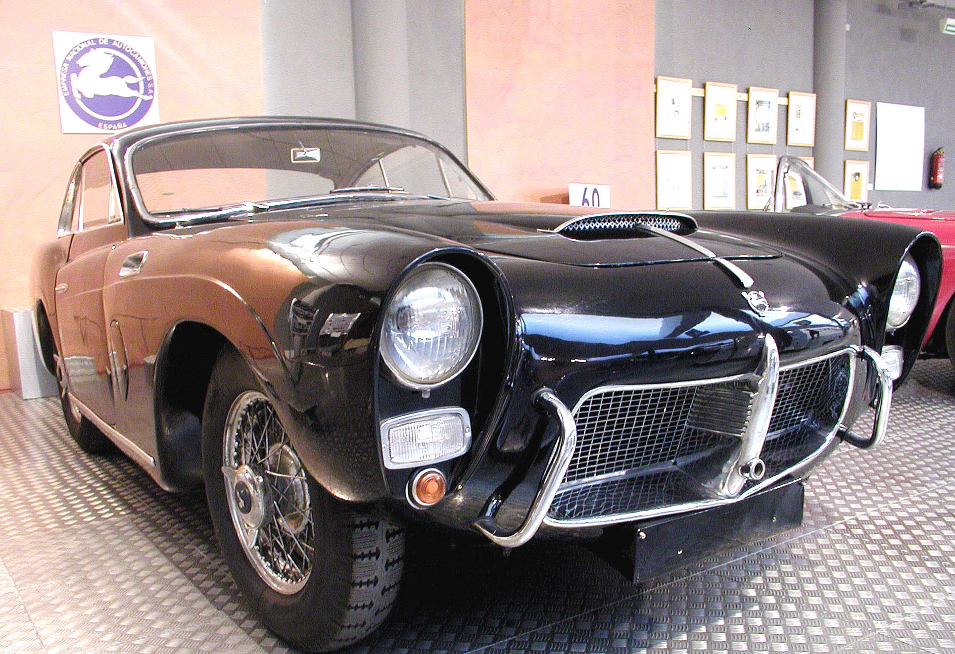 Pegaso Z-102 "Saoutchik"